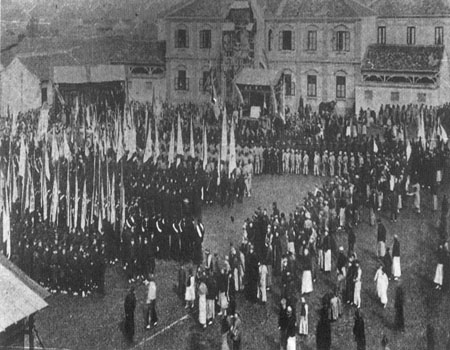 The scene of Ningbo celebrating the foundation of Republic of China